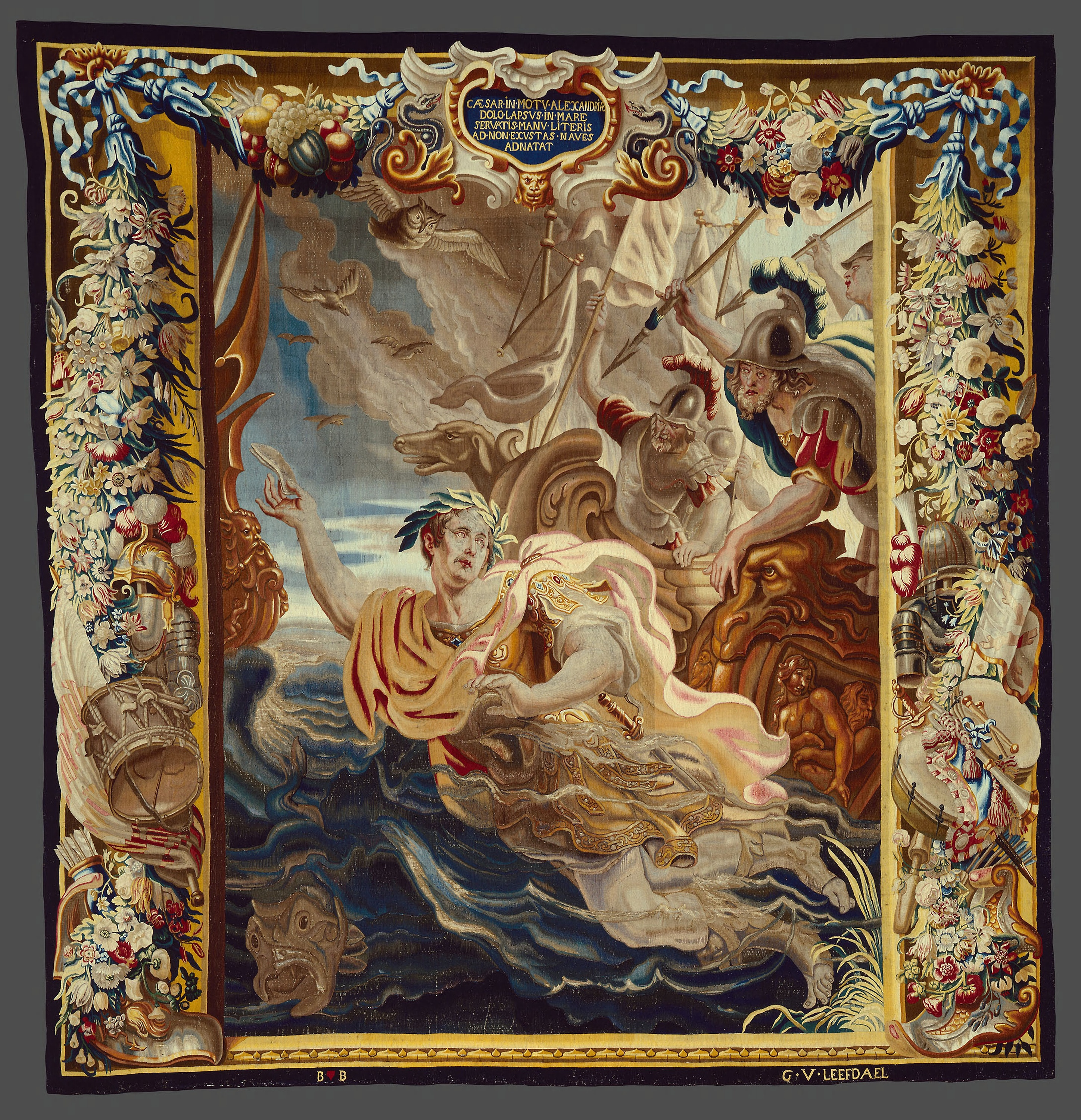 Caesar Throws Himself into the Sea from the Story of Caesar and Cleopatra by Justus van Egmont